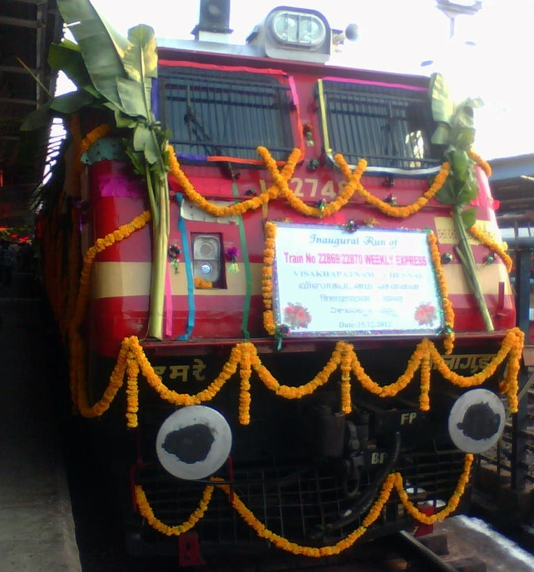 Inagural run of VSKP MAS SF EXPRESS